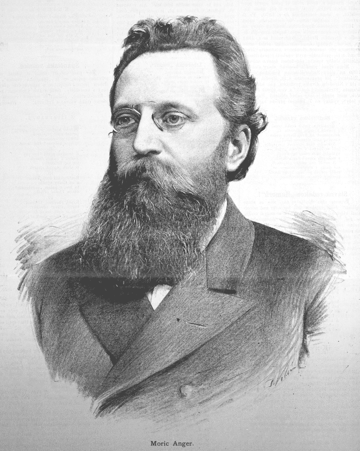 Portrait of Mořic Stanislav Anger (1844-1905), Czech composer and conductor